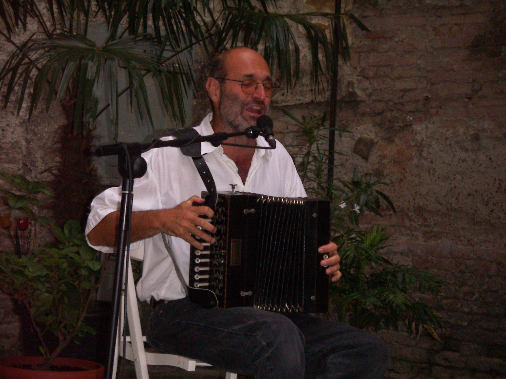 Austrian author, singer-songwriter and cabaret artist Richard Weihs.